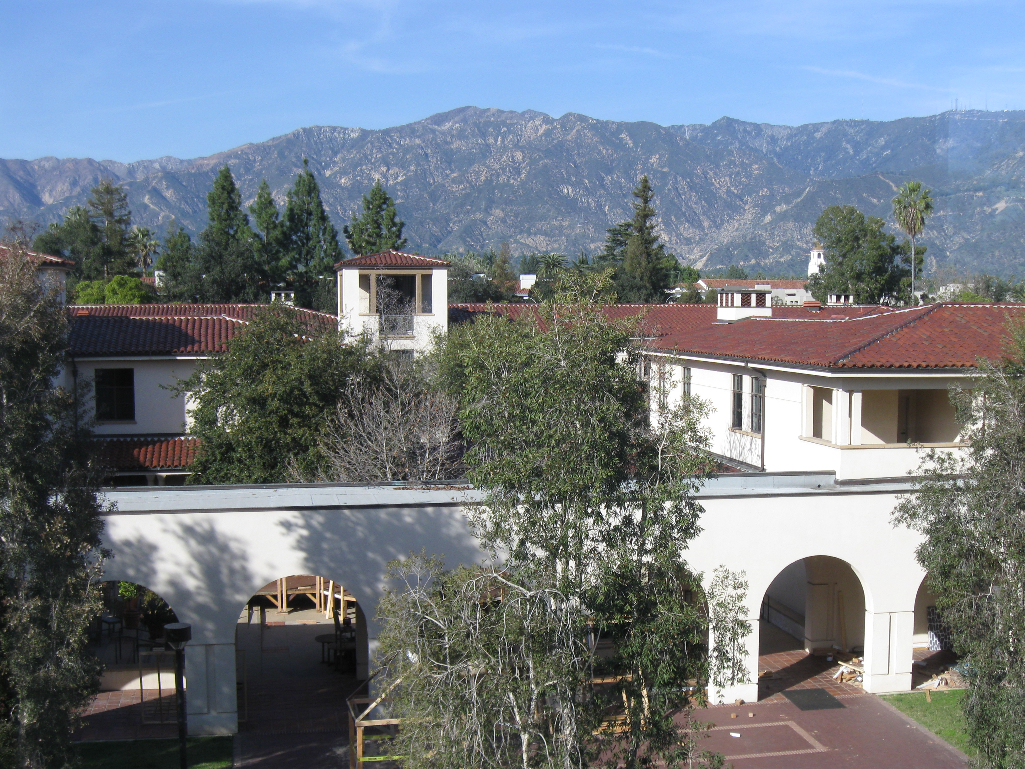 Avery House at the California Institute of Technology in February 2010, photographed from inside the Annenberg Center across the Moore Walk.